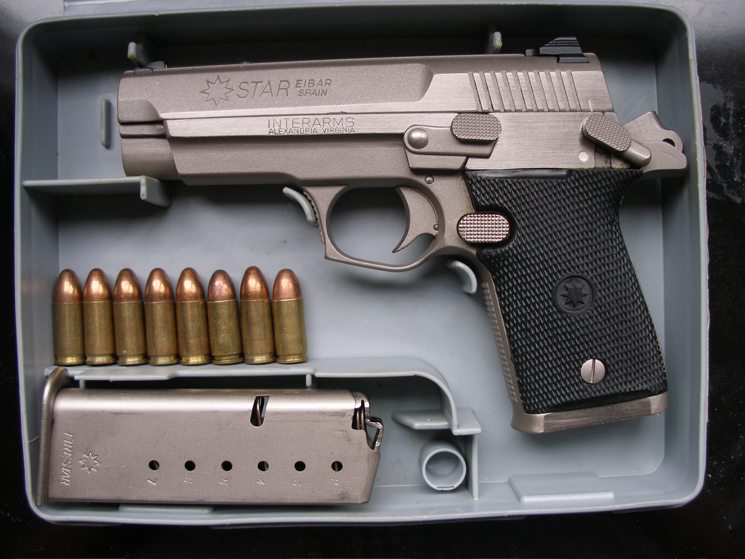 Star M43 Firestar 9 mm handgun. Shown in its box with the magazine and ammo.